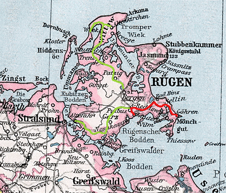 Map of the Rügensche Kleinbahn, based on Image:Pommern_Kr_Rügen.pnggreen - abandoned track, red - track in use